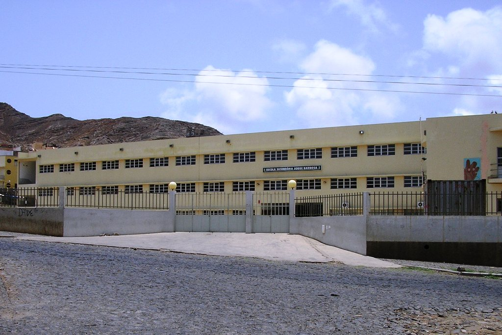 "Jorge Barbosa" secondary school in Mindelo, São Vicente island, Cape Verde